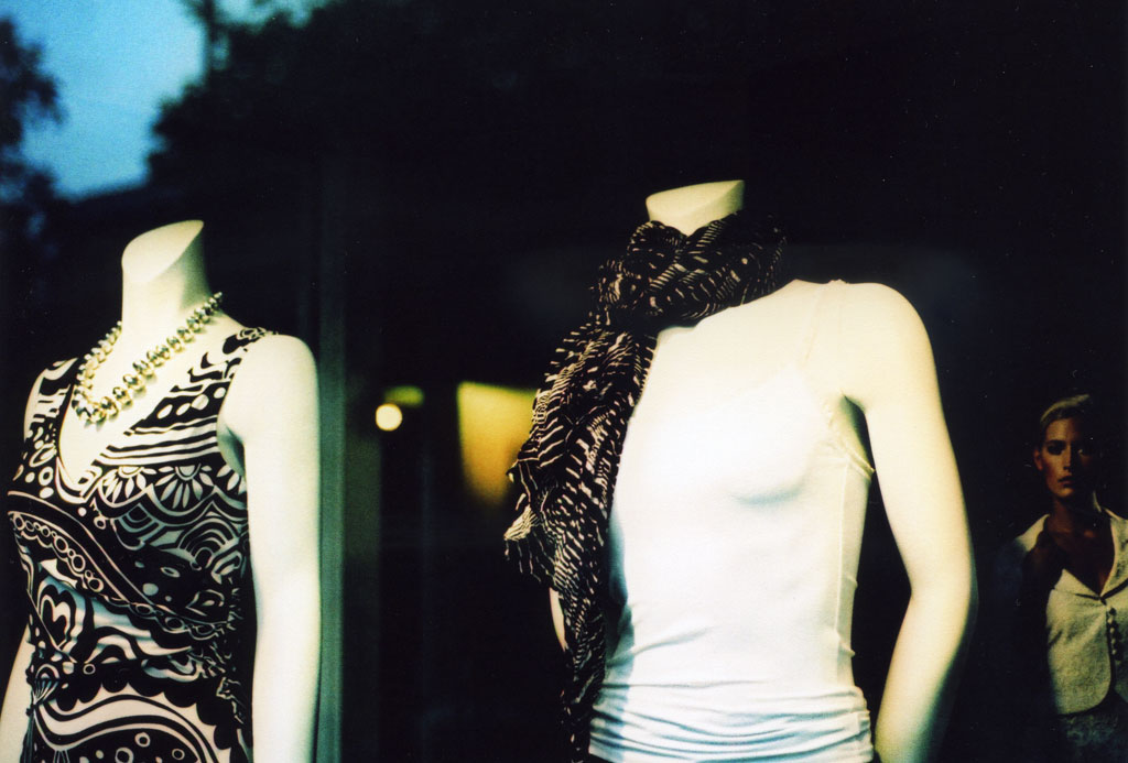 Cross Processed image Agfa CT Precisa 100 Shot at EI 80 then cross processed in C41 chemistry.